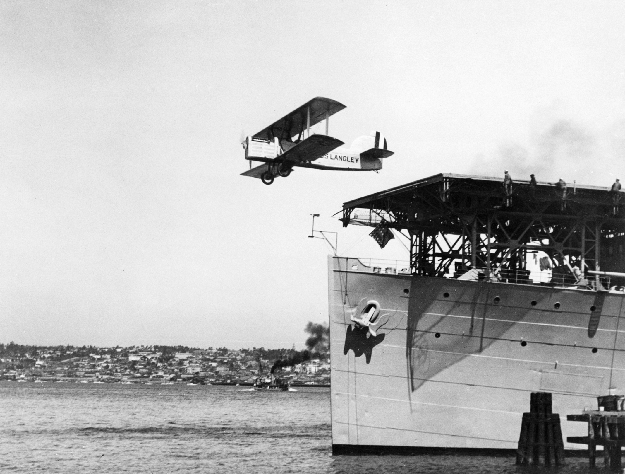 A U.S. Navy Douglas DT-2 torpedo bomber taking off from the flight deck of the aircraft carrier USS Langley (CV-1), which is docked at the carrier pier at Naval Air Station North Island, California (USA), in a test to determine the feasibility of using flush-deck catapults to launch wheeled aircraft from ships.